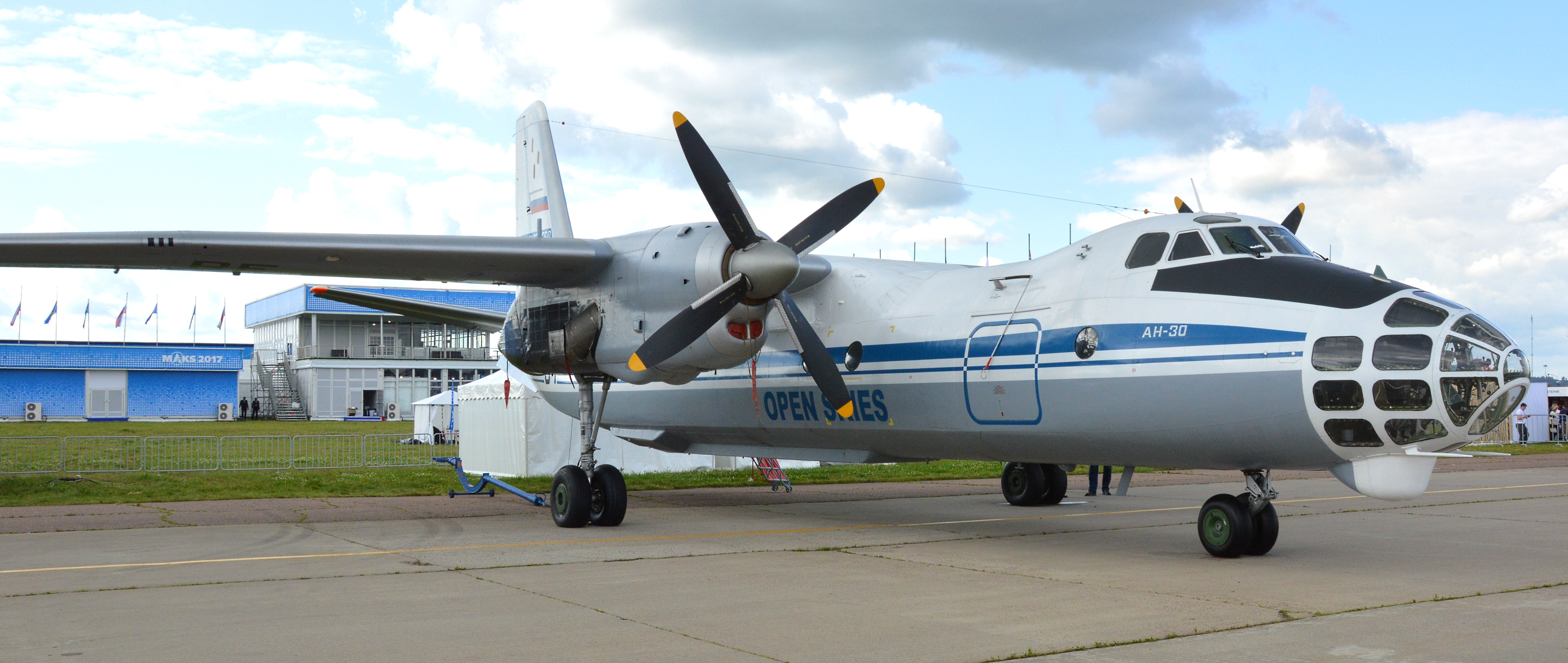 Antonov An-30 "Open Skies" @ MAKS 2017